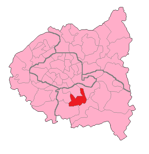 Map of Val-de-Marne's 9th constituency shown within Ile-de-France (Petite Couronne)